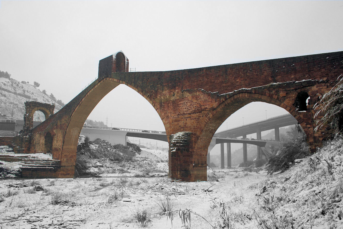 The Puente del Diablo is a bridge over the Llobregat in Martorell, Catalonia, Spain.